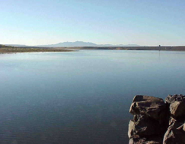 Cochiti Dam and Cochiti Lake on the Rio Grande River, New Mexico, USA. Dam is in background stretching from right middle upper to left fade. Dam is an earthen dam greater than five miles long.